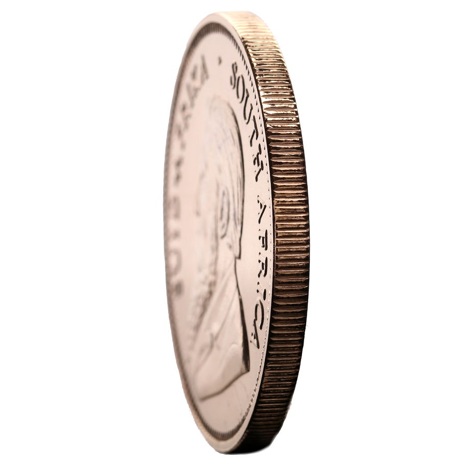 Rim of the 1 oz Krugerrand coin 2016.